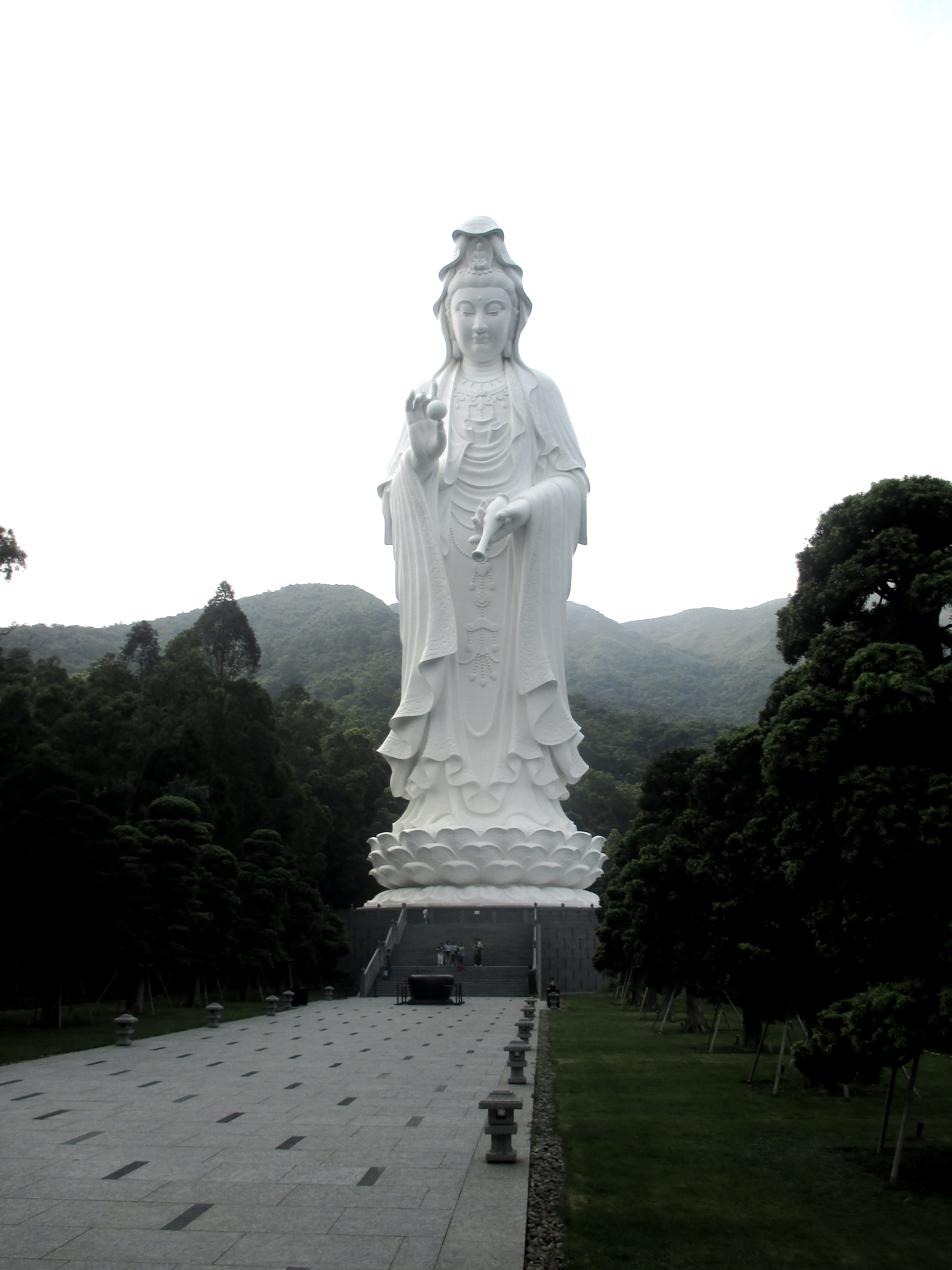 Statue of Guanyin in Tsz Shan Monastery, Hong Kong